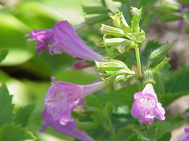 Species: Calamintha grandiflora Family: Labiatae Image No. 1